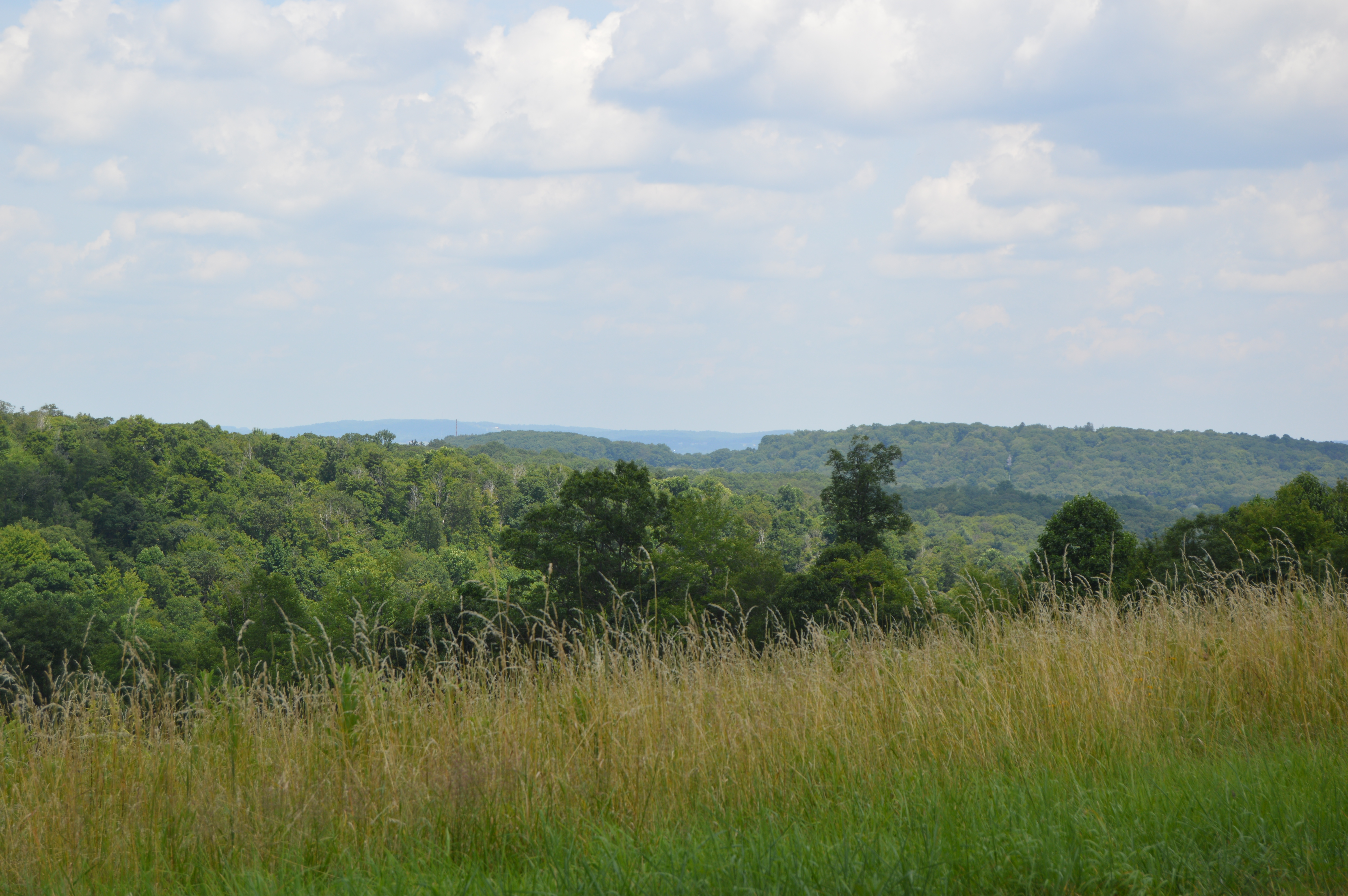 Hill country in far southern Upper Yoder Township, Cambria County, Pennsylvania, United States, seen looking east from Ligonier Pike near PA 271.